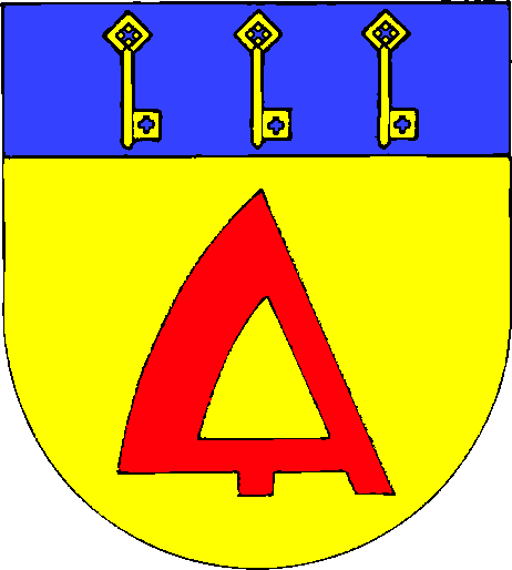 Coat of arms of the former Amt (county) Treene in Schleswig-Holstein, Germany.